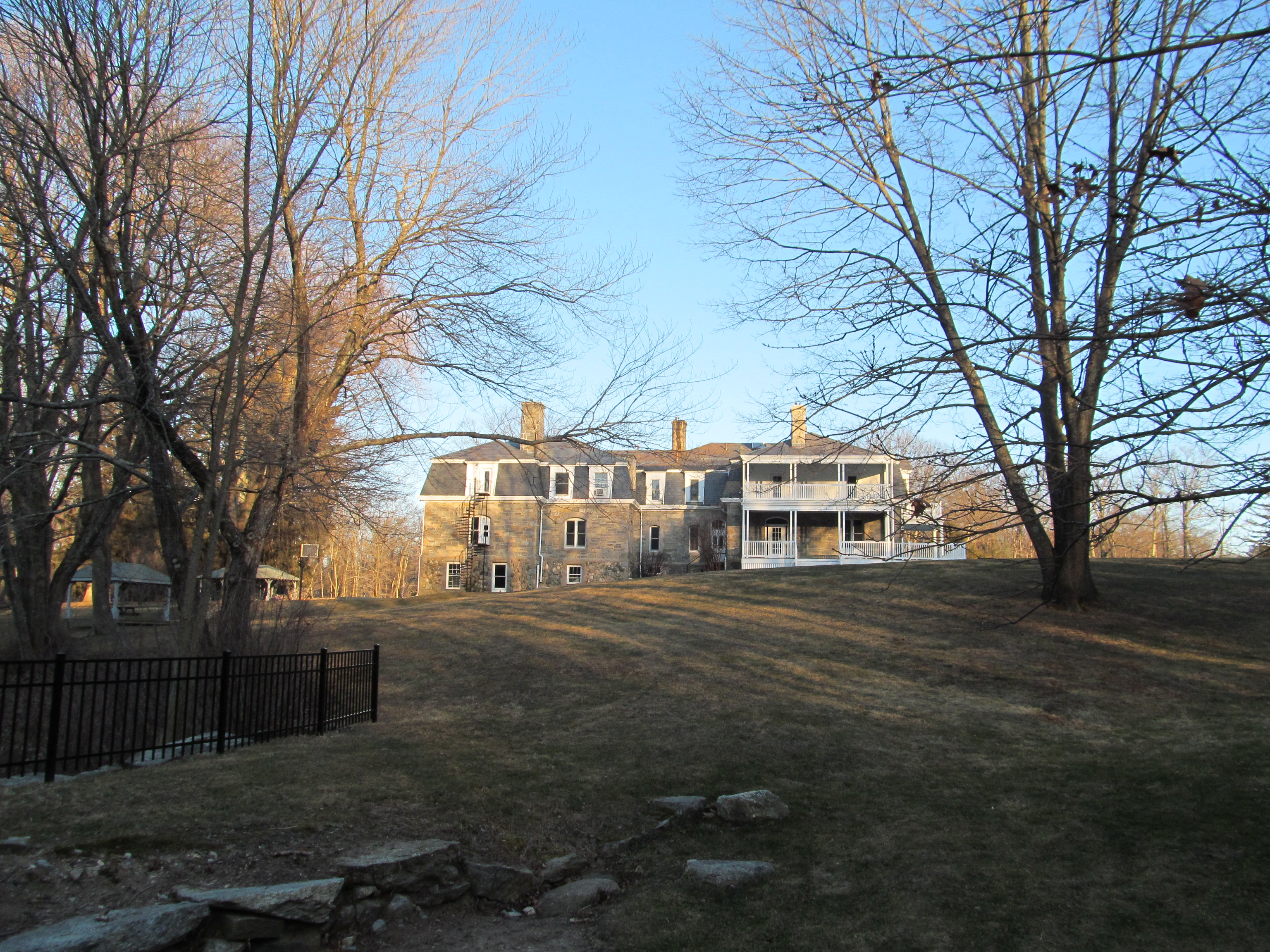 Sudbury Valley School, Framingham Massachusetts